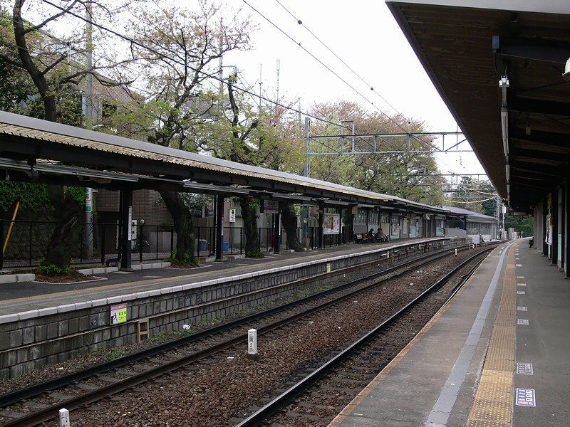 The platforms at Inokashira-koen Station on the Keio Inokashira Line